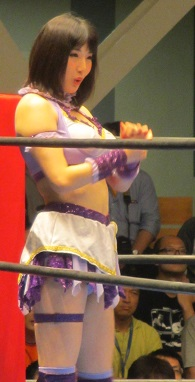 Japanese professional wrestler, Makoto. Aug 30 2015, Ice Ribbon Korakuen Hall.